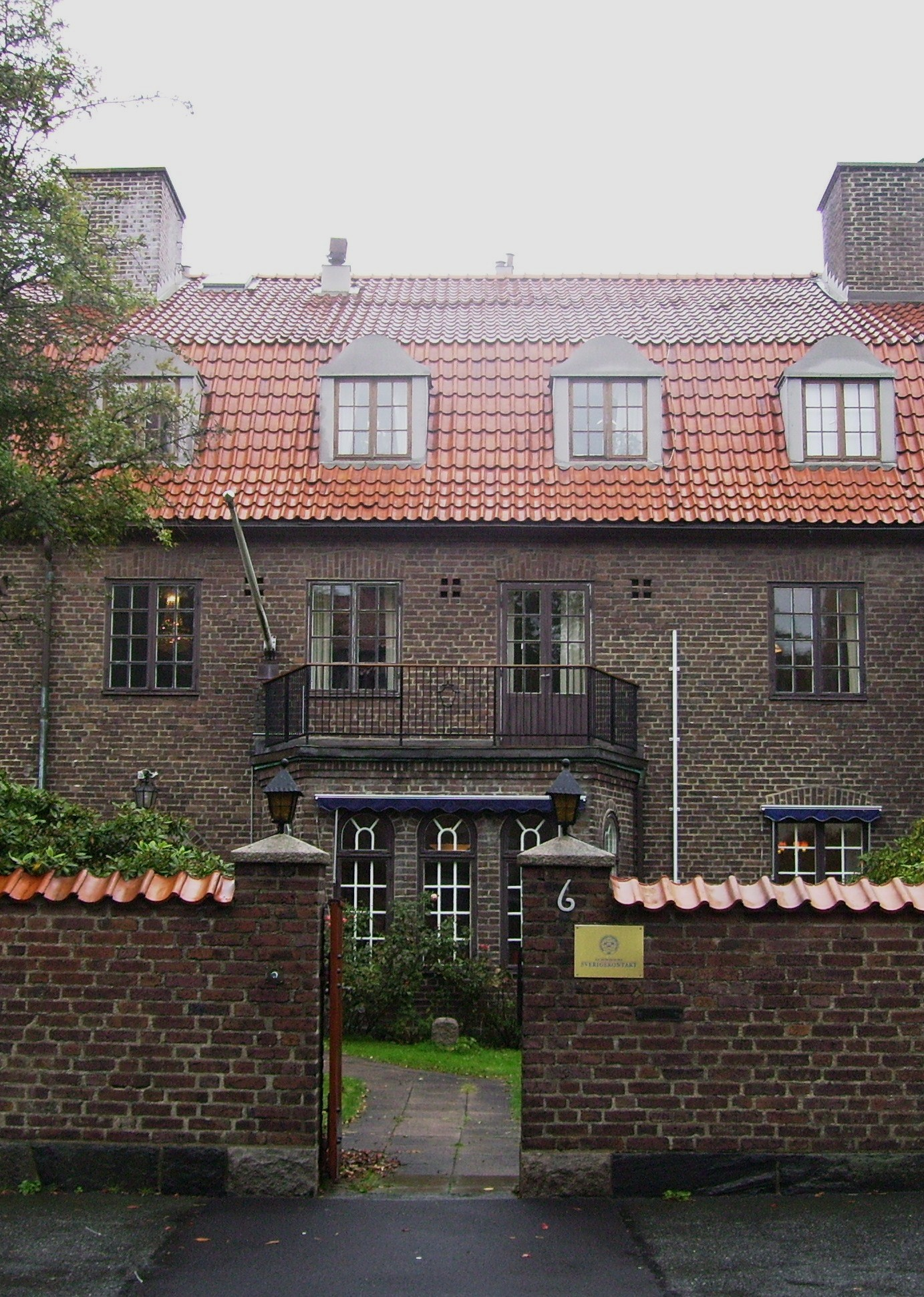 Picture of organization Sverigekontakt's office in Göteborg.